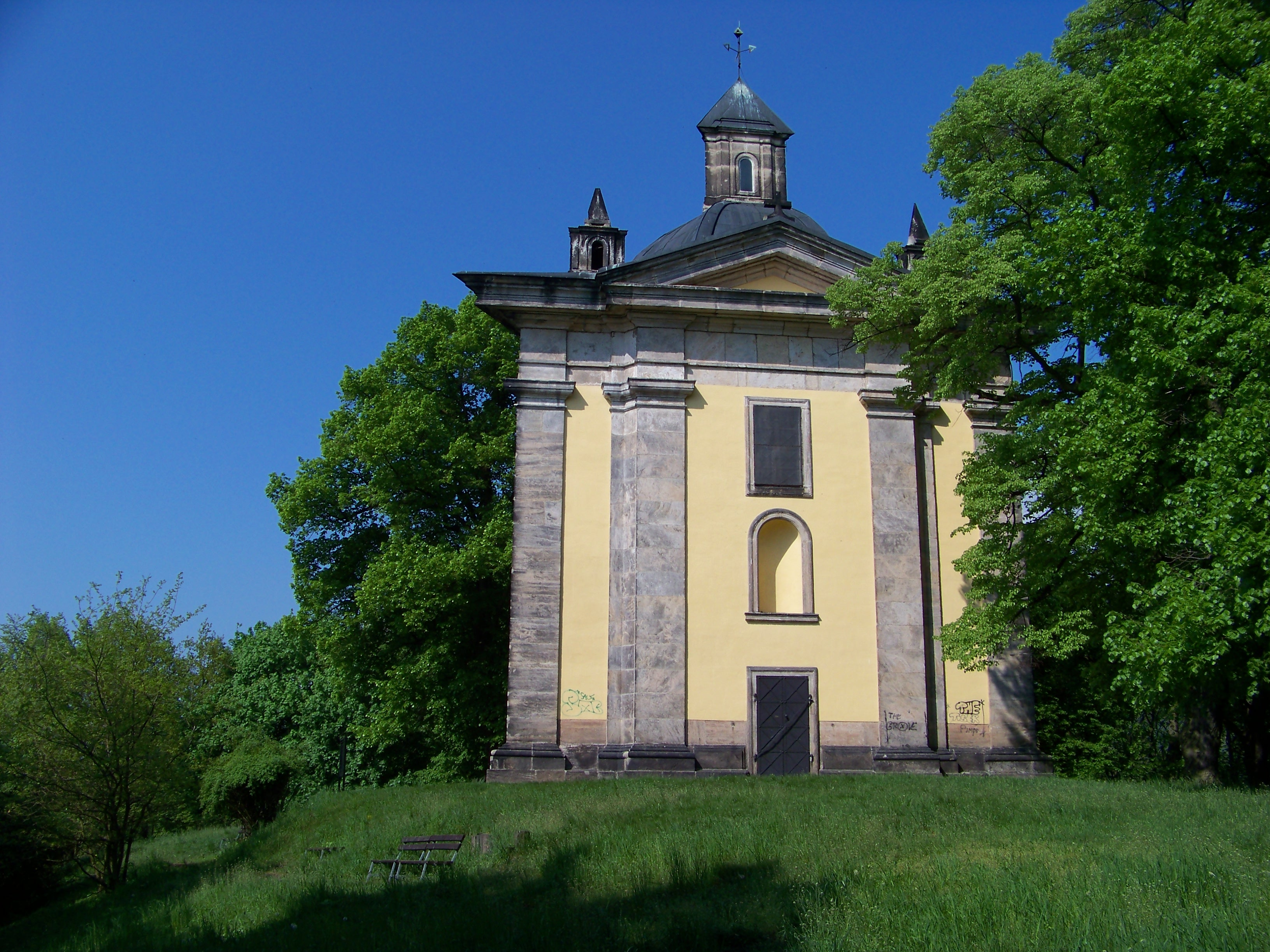 Chlumec, Ústí nad Labem District, Ústí nad Labem Region, Czech Republic. Horka hill, Holy Trinity chapel.